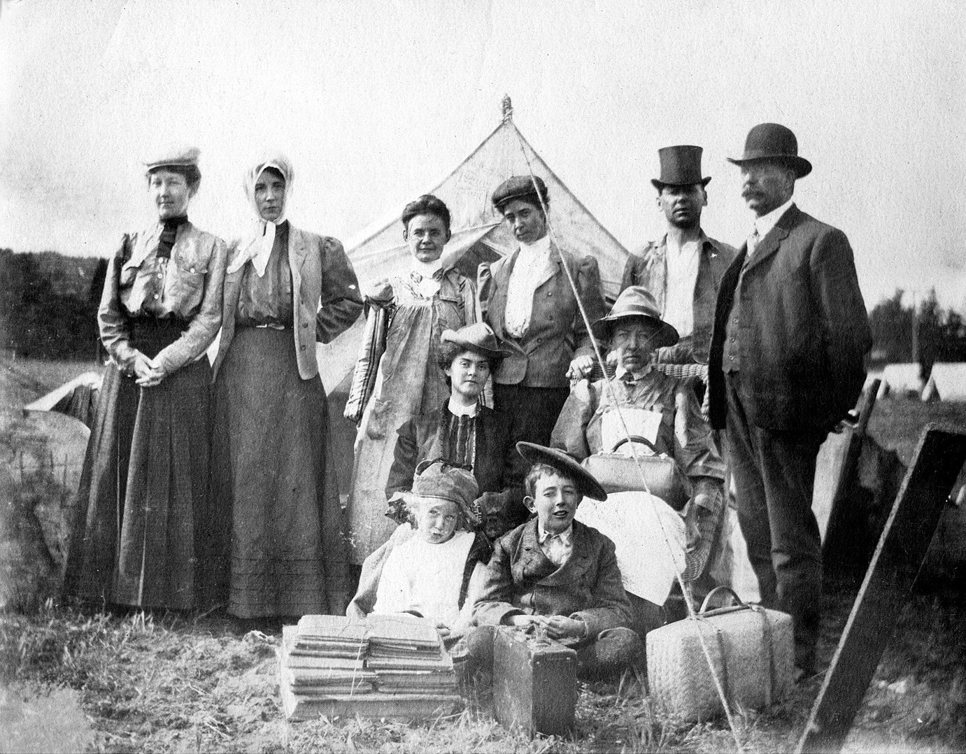 Displaced victims of the SF earthquake, in front of a temporary tent shelter. Third person from left is a sister of uploader's great-grandmother. A snapshot by unknown photographer.